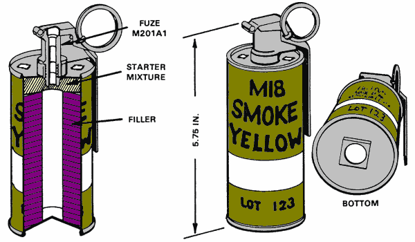 Drawing of an American M18 smoke grenade.